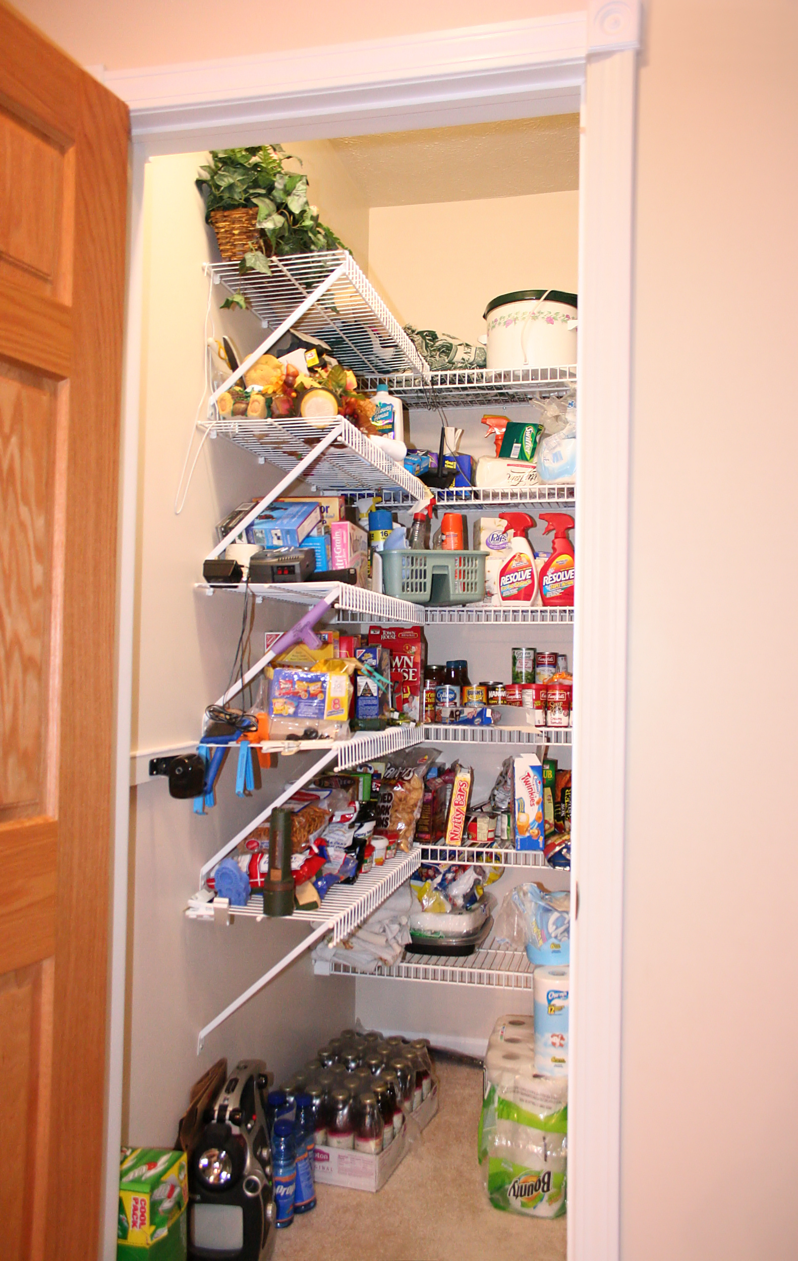 A pantry in a residential house in the United States. Photo shot by Derek Jensen (Tysto), 2006-January-04